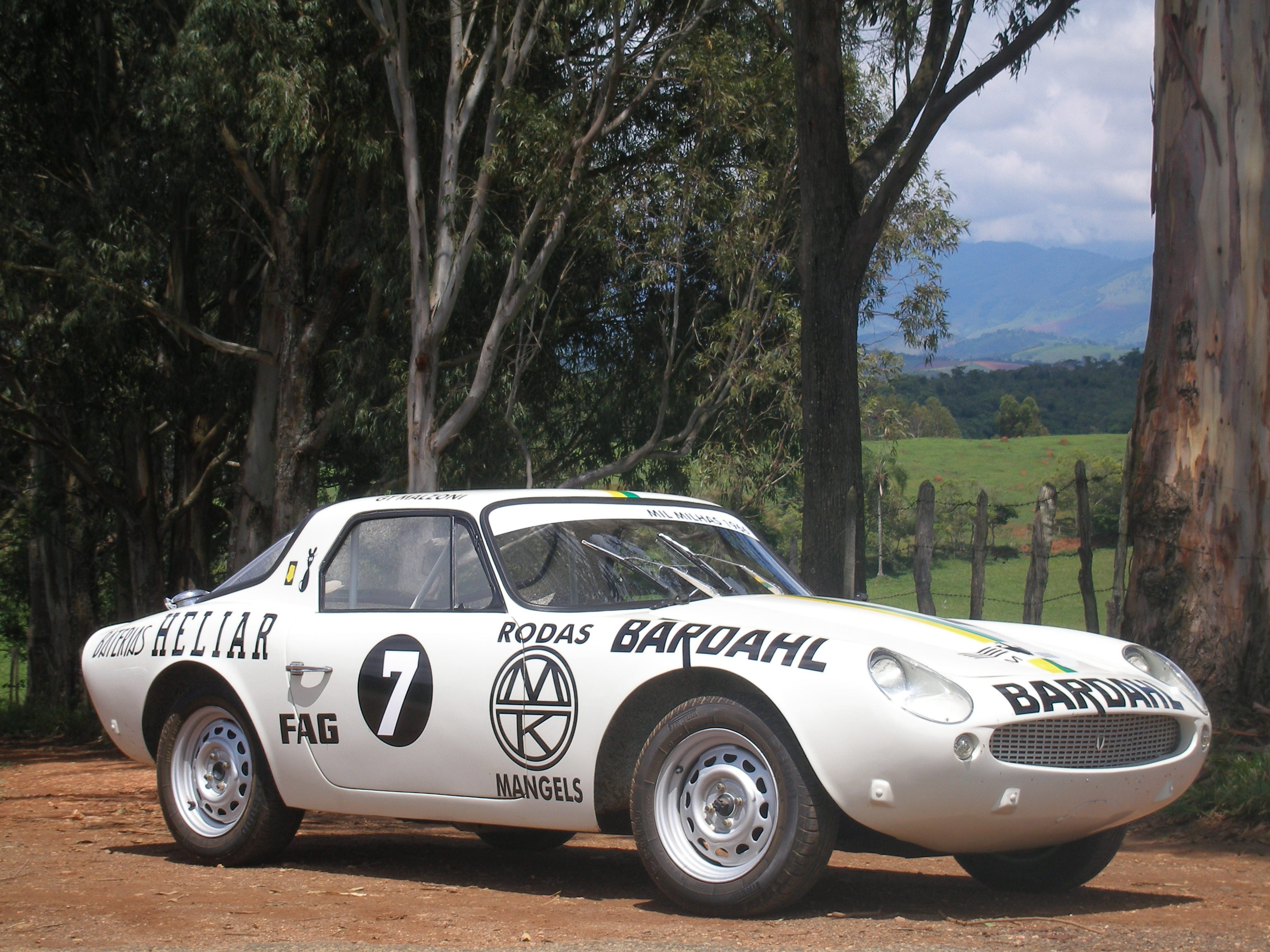 Brazilian made Malzoni - made by Genaro "Rino" Malzoni, over a DKW chassis.